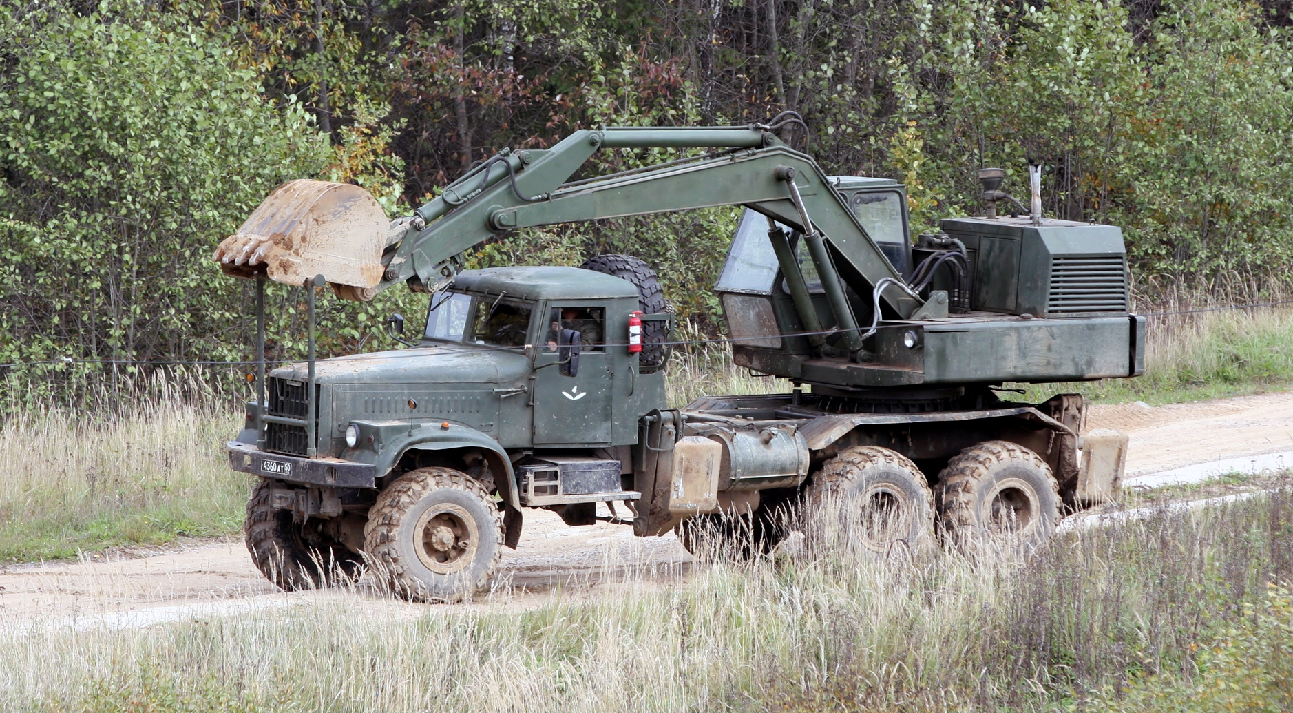 Russian EOV-4421.